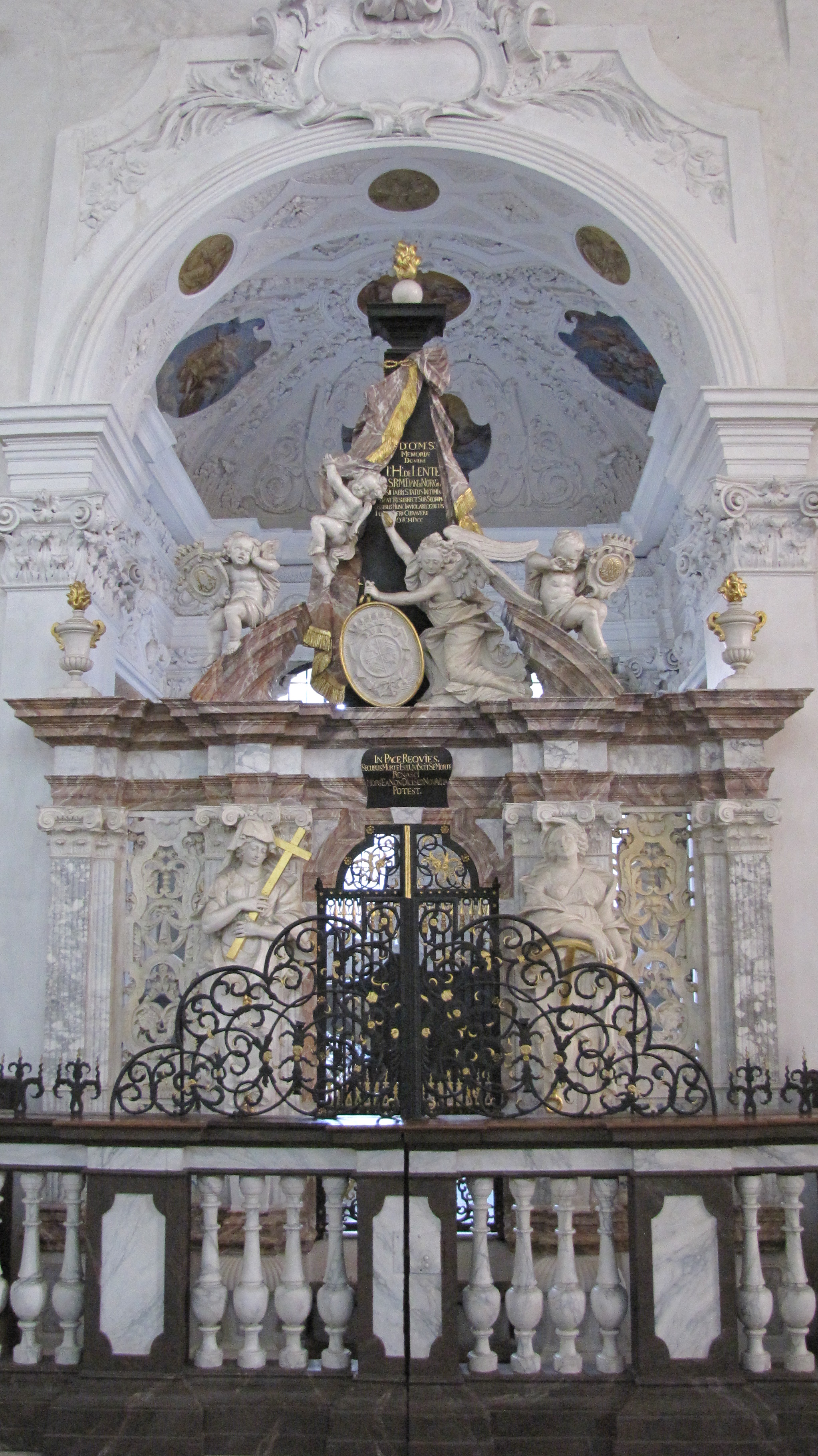 View of von Lente burial chapel, Lübeck cathedral, by Thomas Quellinus